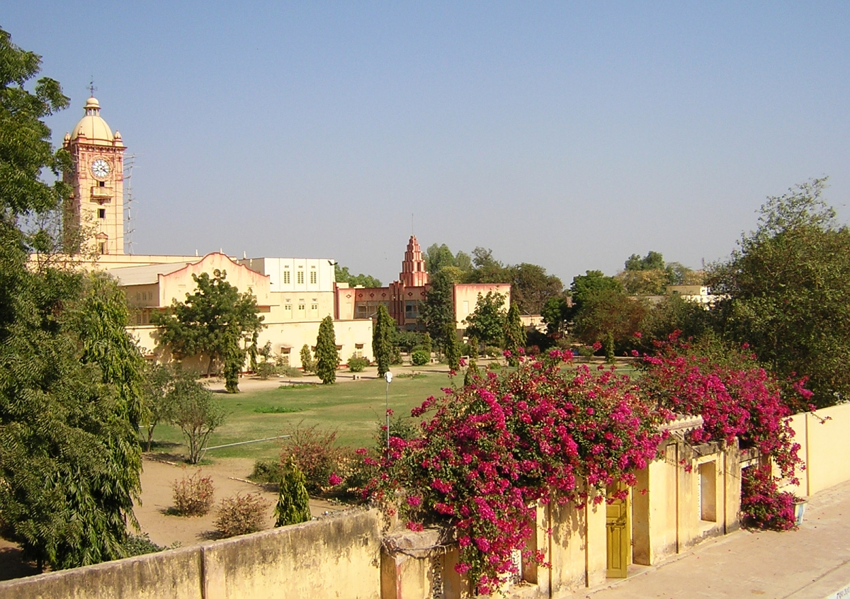 Podar College in Nawalgarh, Jhunjhunu.